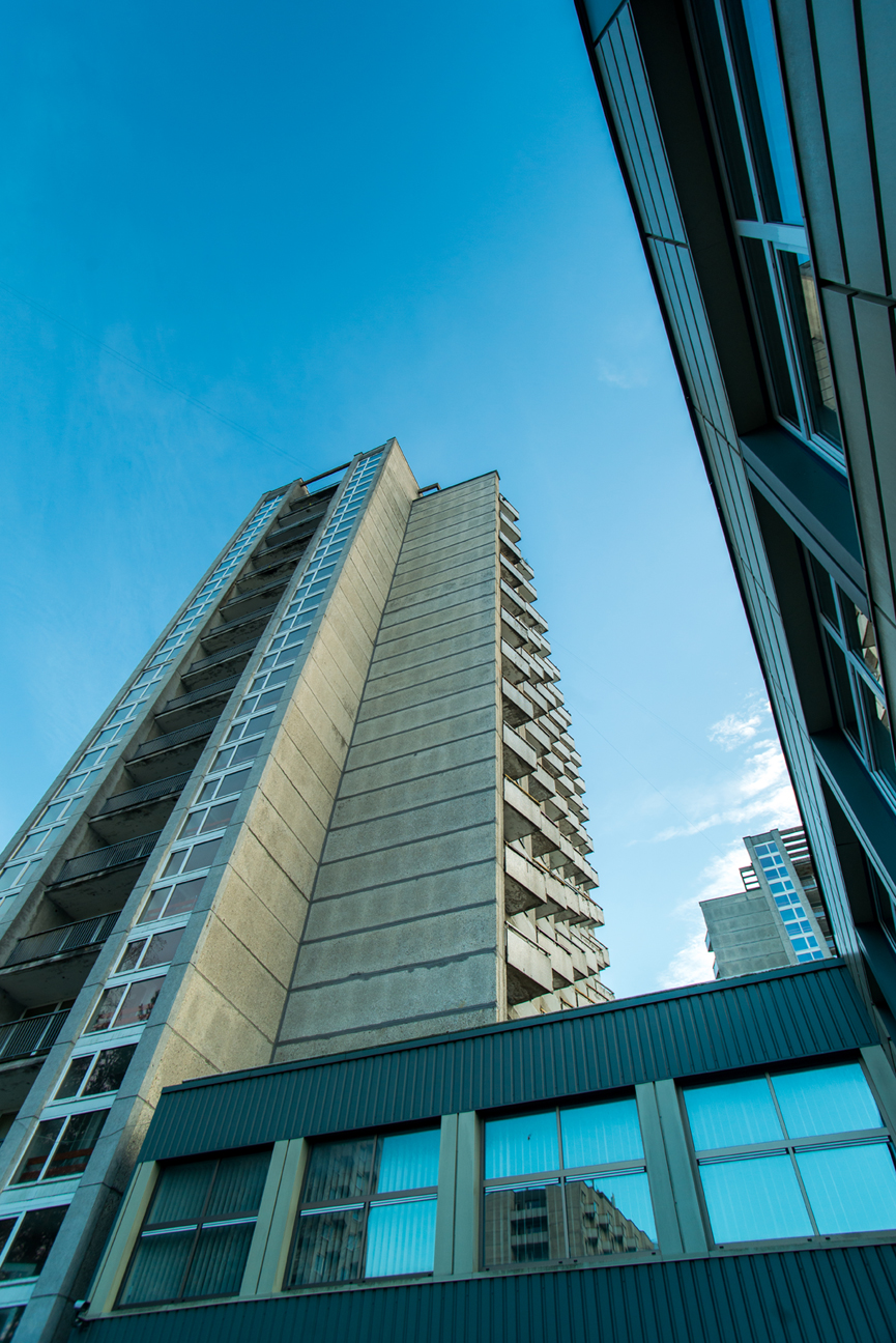 VGTU bendrabučiai